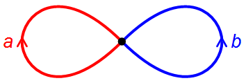 A rose with two petals.